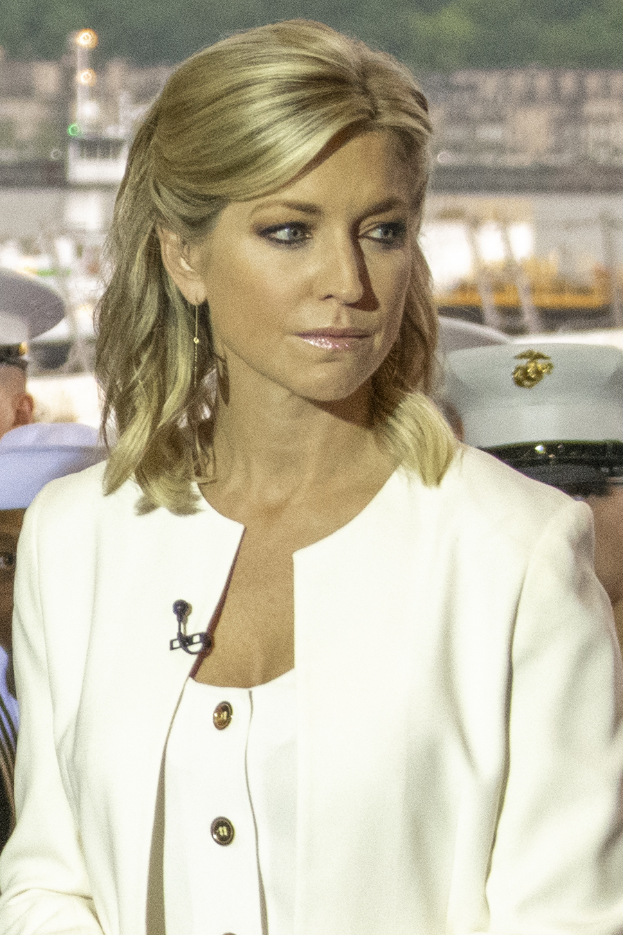 U.S. Secretary of State Michael R. Pompeo participates in an interview with Fox and Friends from the hangar deck of the United States Ship dock in Manhattan, New York on May 23, 2019. [State Department photo by Ron Przysucha/ Public Domain]